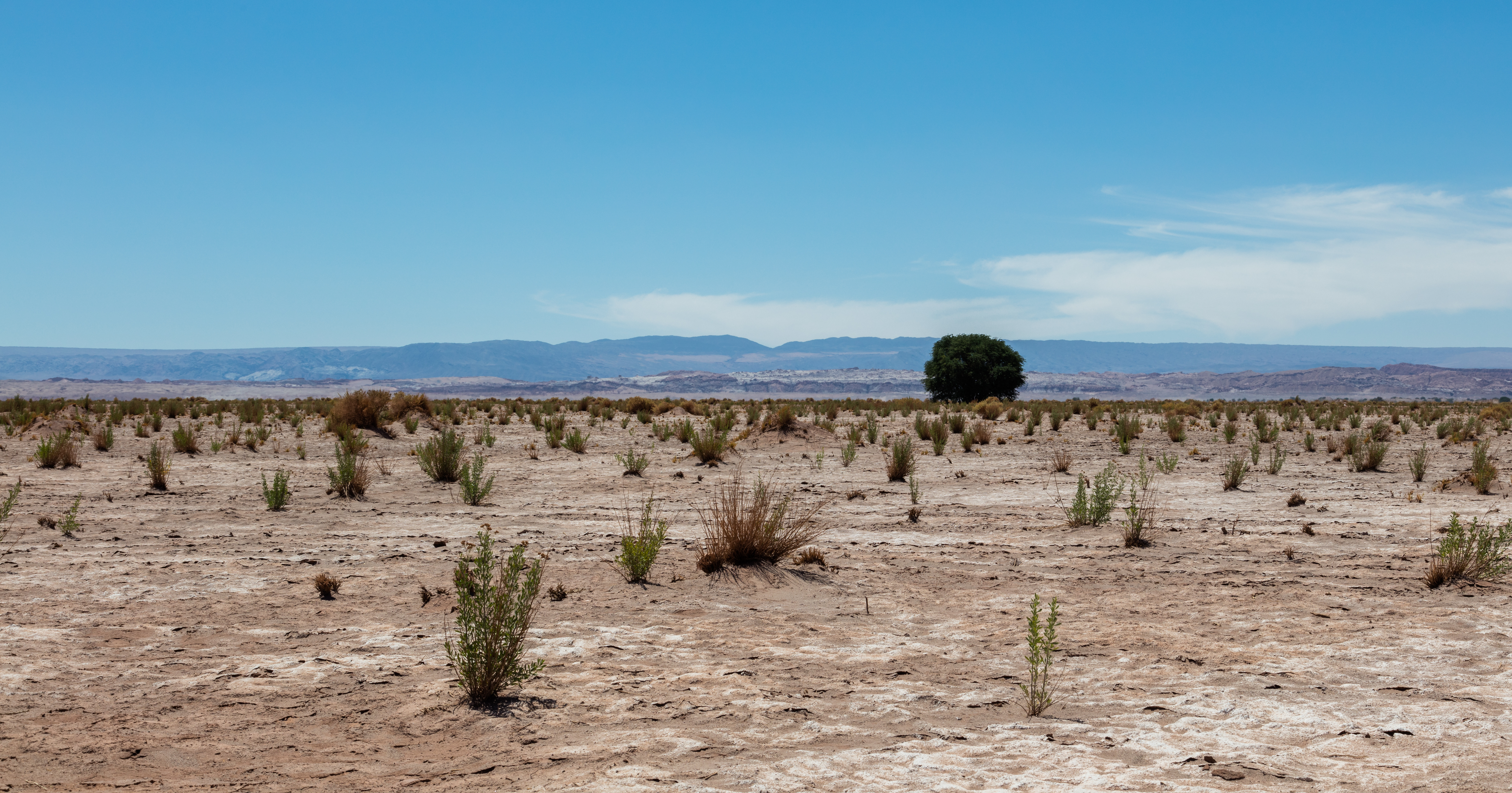 Landscape in the Atacama Desert, Chile